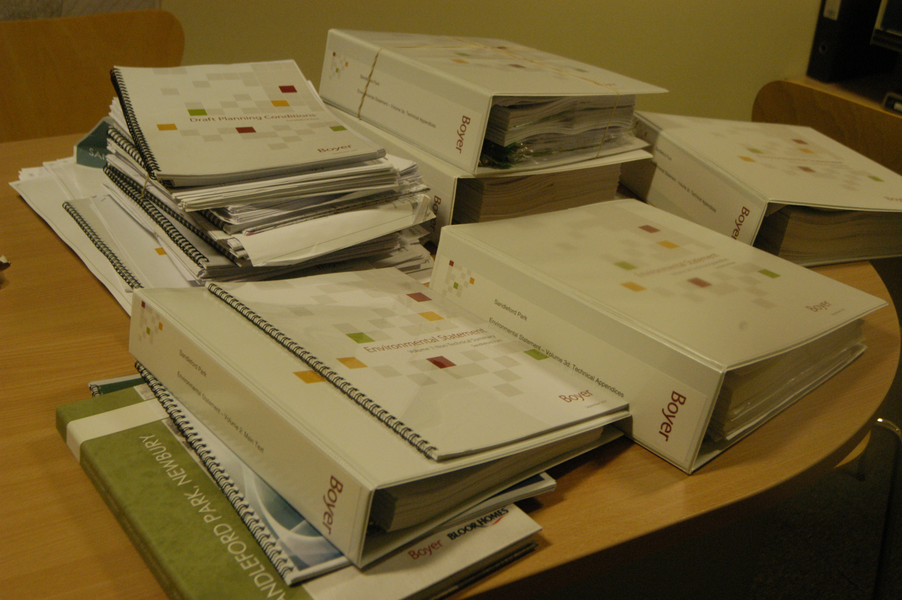 Photo (by me, R. de Salis, Rodolph (talk) 00:35, 2 February 2016 (UTC)) of files for seeking planning permission at Sandleford, West Berkshire Council offices, Newbury, January 2016.